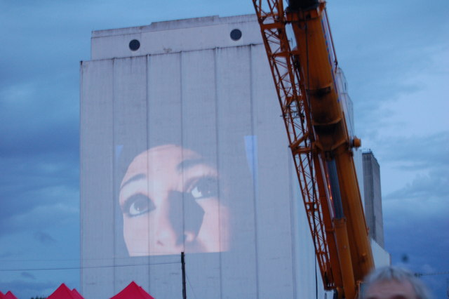 Projection onto the side of Spillers Quay During the La Fura dels Baus event in July 07, the face is a close-up of the woman who was dangling from the top of the crane, and singing